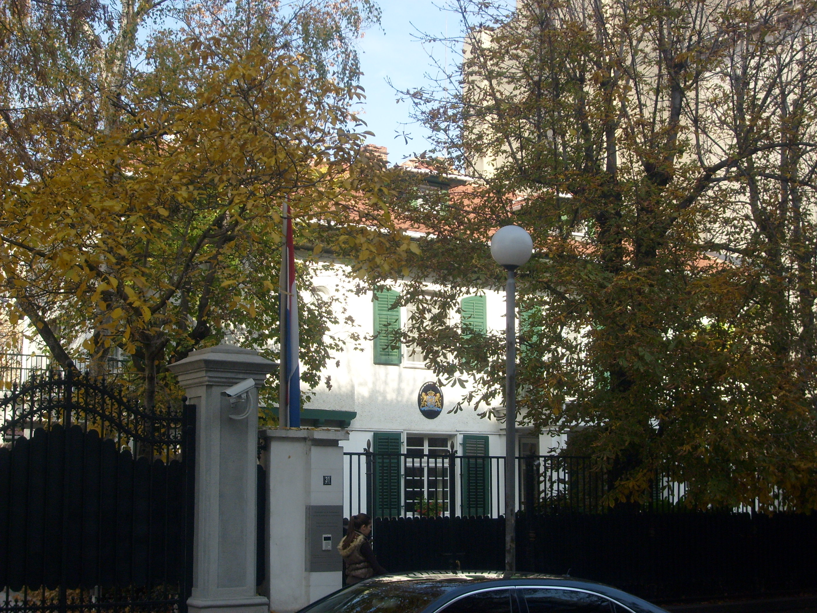 Sofia, Bulgaria Residence of the Dutch ambassador